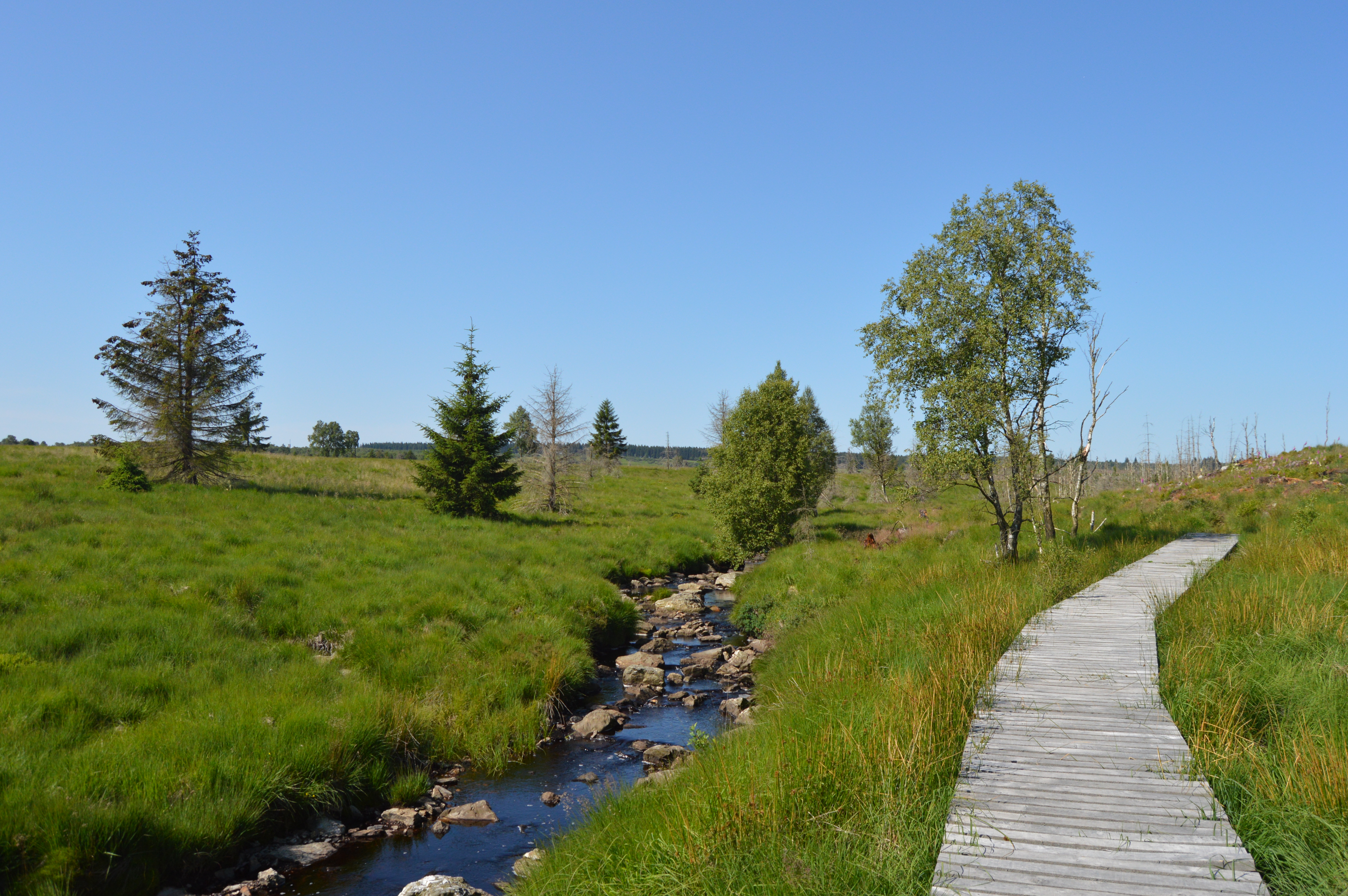 Hell River valley in High Fens, between Nederlands (1815-1830) then Belgium (1830-1918), and Prussia (1815-1870) then Germany (1870-1918)